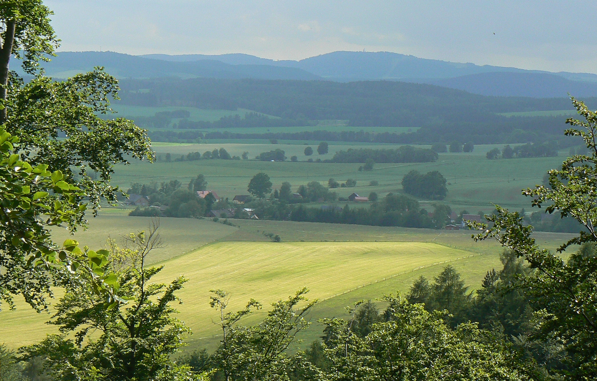 View from Brecštejn Castle in nature park Hrádeček, Trutnov District in Czech Republic